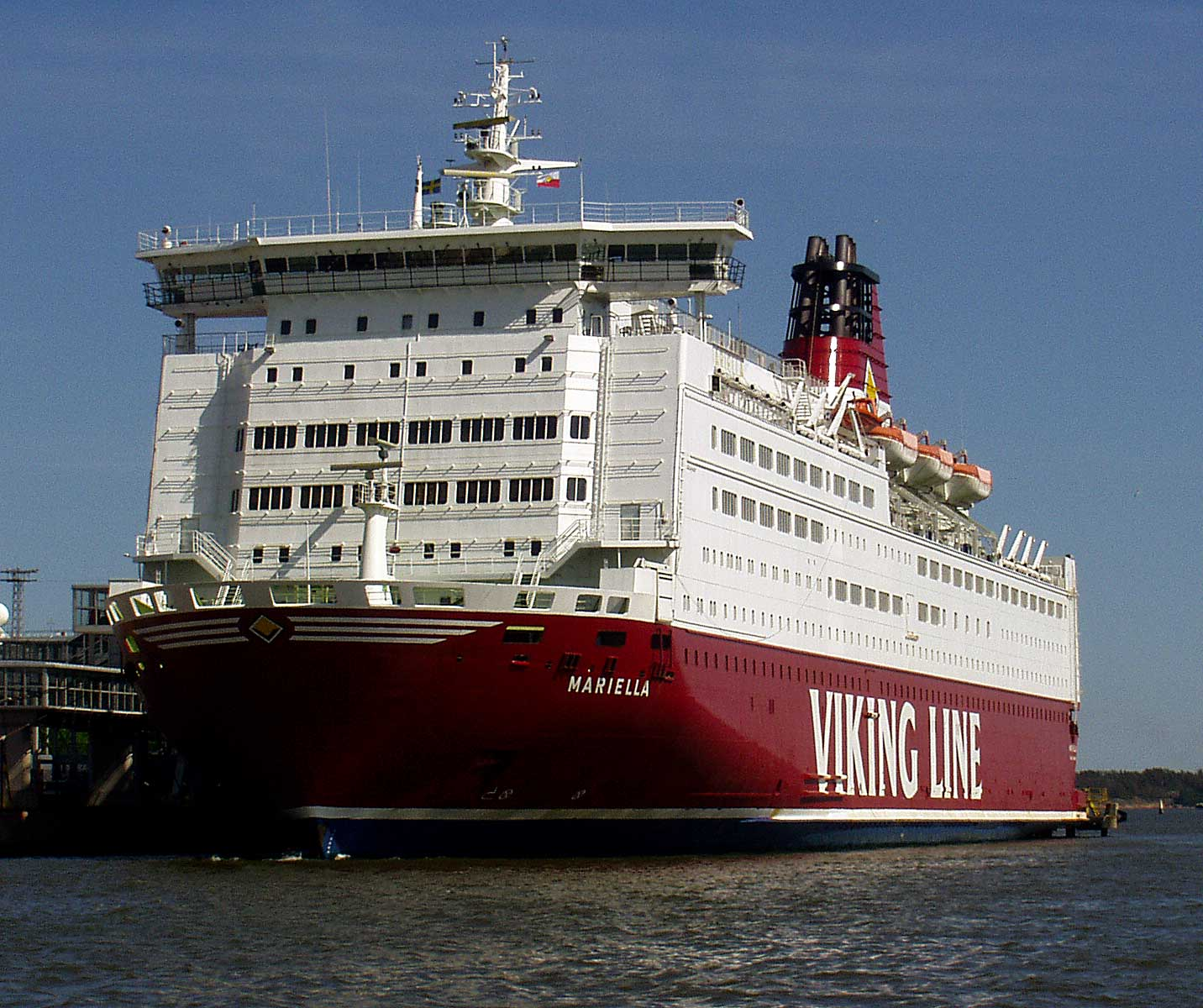 MS Mariella in Helsinki, Finland.